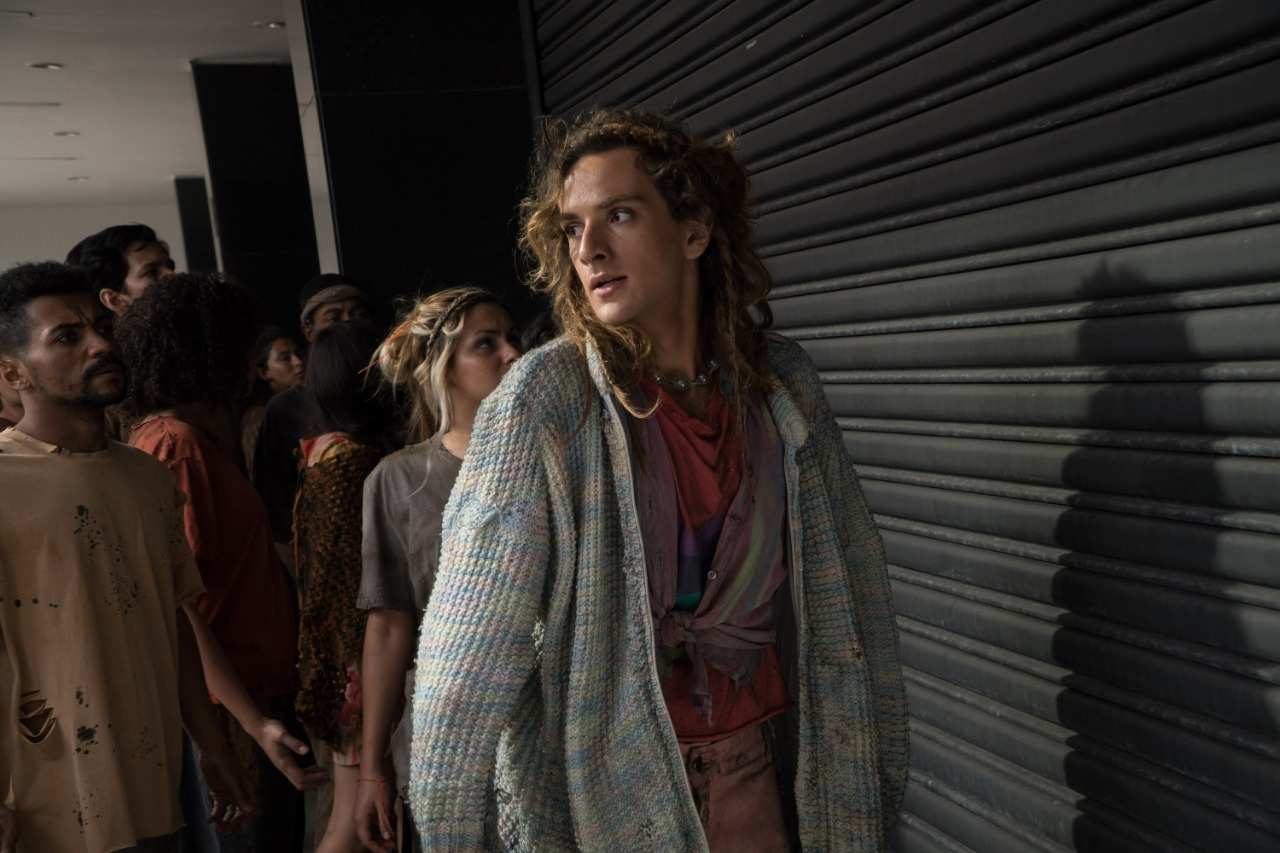 Marina em "3%", série da Netflix